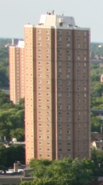 Arlington Court Apartments with Locust Court Apartments in the background.